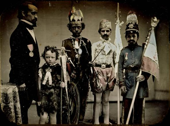 Daguerreotype of a group in costume for Saint Jean Baptiste Day, Montreal, 1855. For the history of this document : Joan M. Schwartz, « More than Un beau souvenir du Canada »